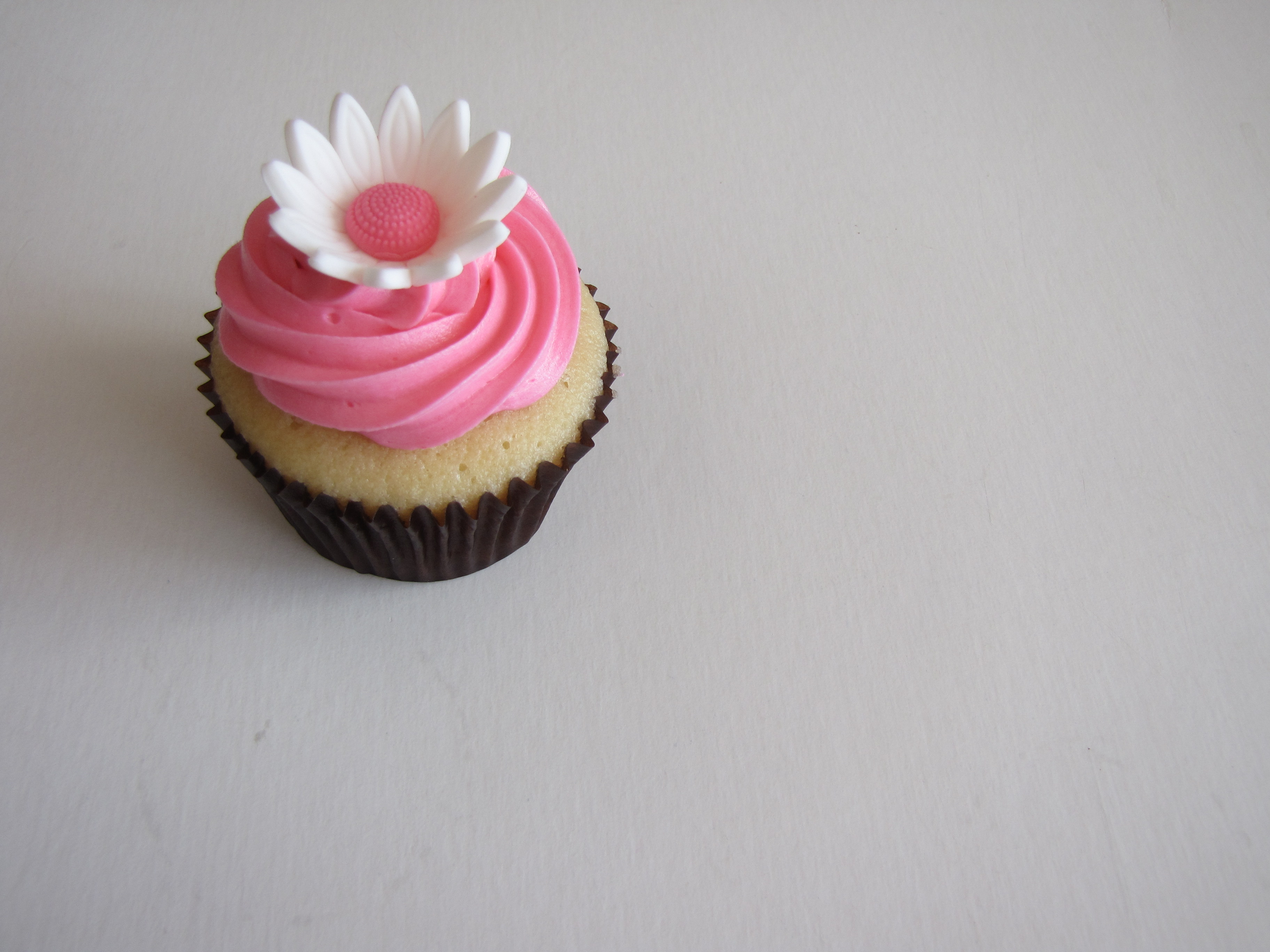 Part of an order for a little girl's first birthday party. Follow us on Twitter. Find us on Facebook.